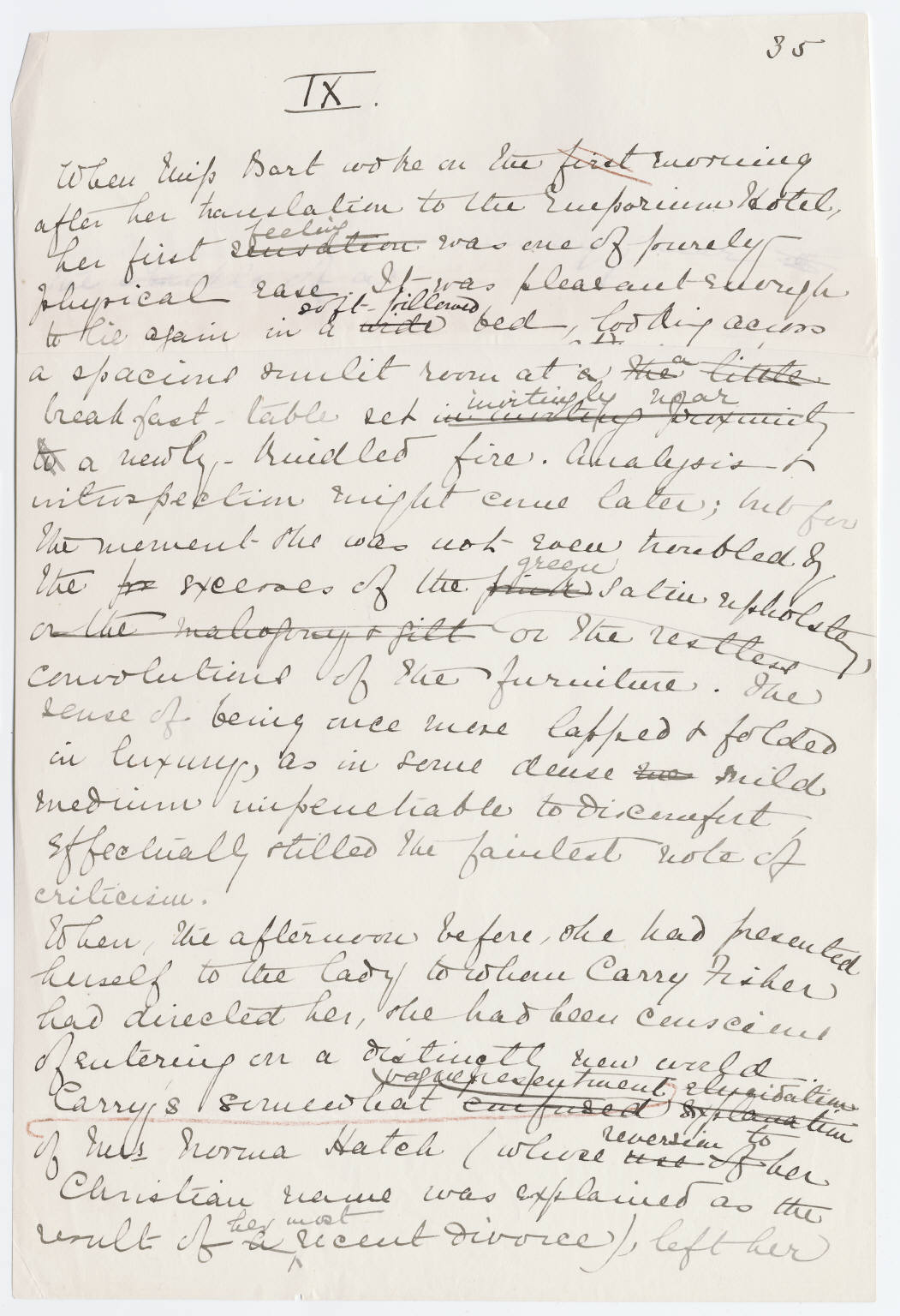 Page from the original manuscript of "The House of Mirth," written by the American author Edith Wharton. Book II, Chapter 9, pp. 35-56. Courtesy of the Beinecke Rare Book & Manuscript Library, Yale University.